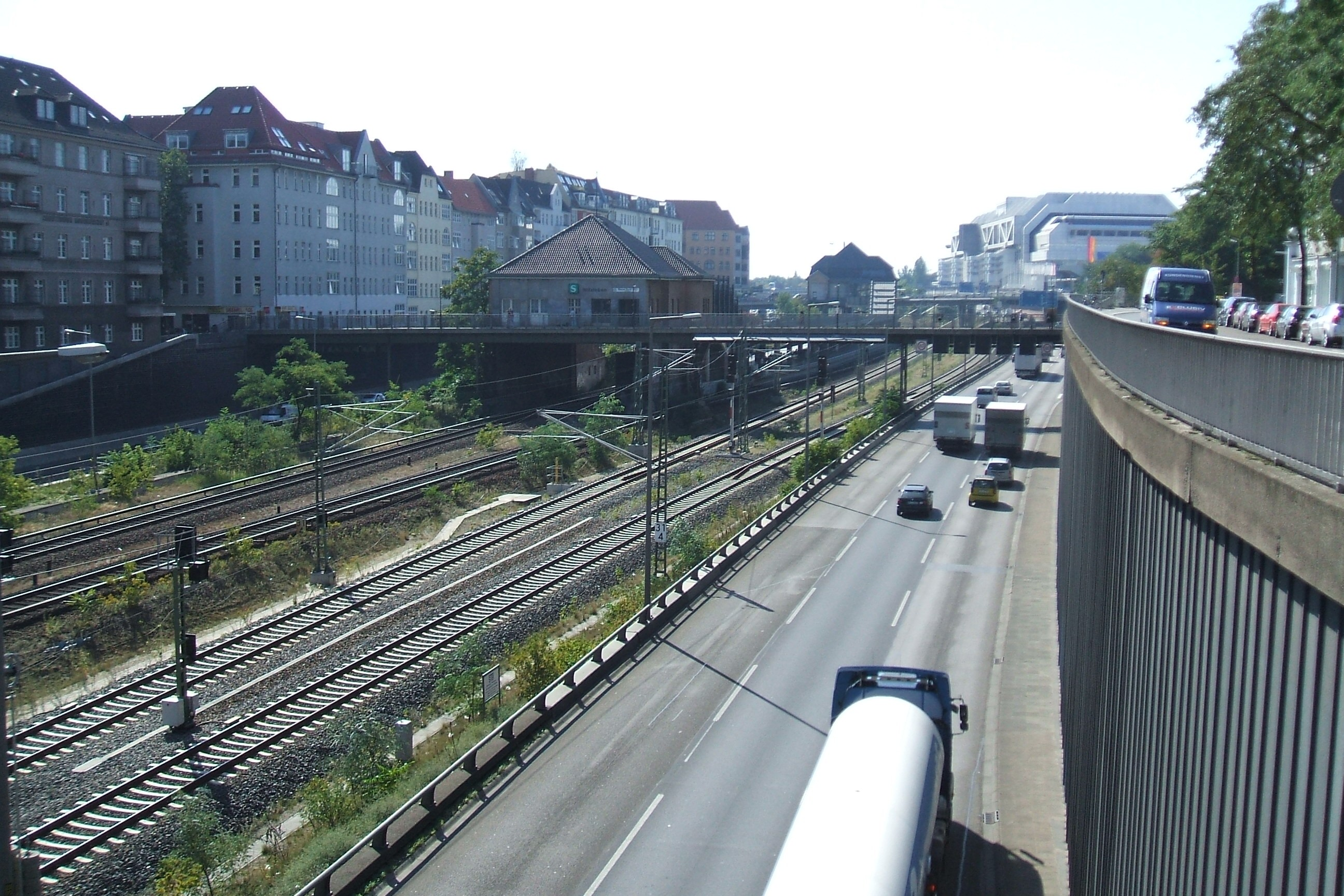 View on the Berlin city motorway A 100 from Kaiserdamm bridge in Charlottenburg.